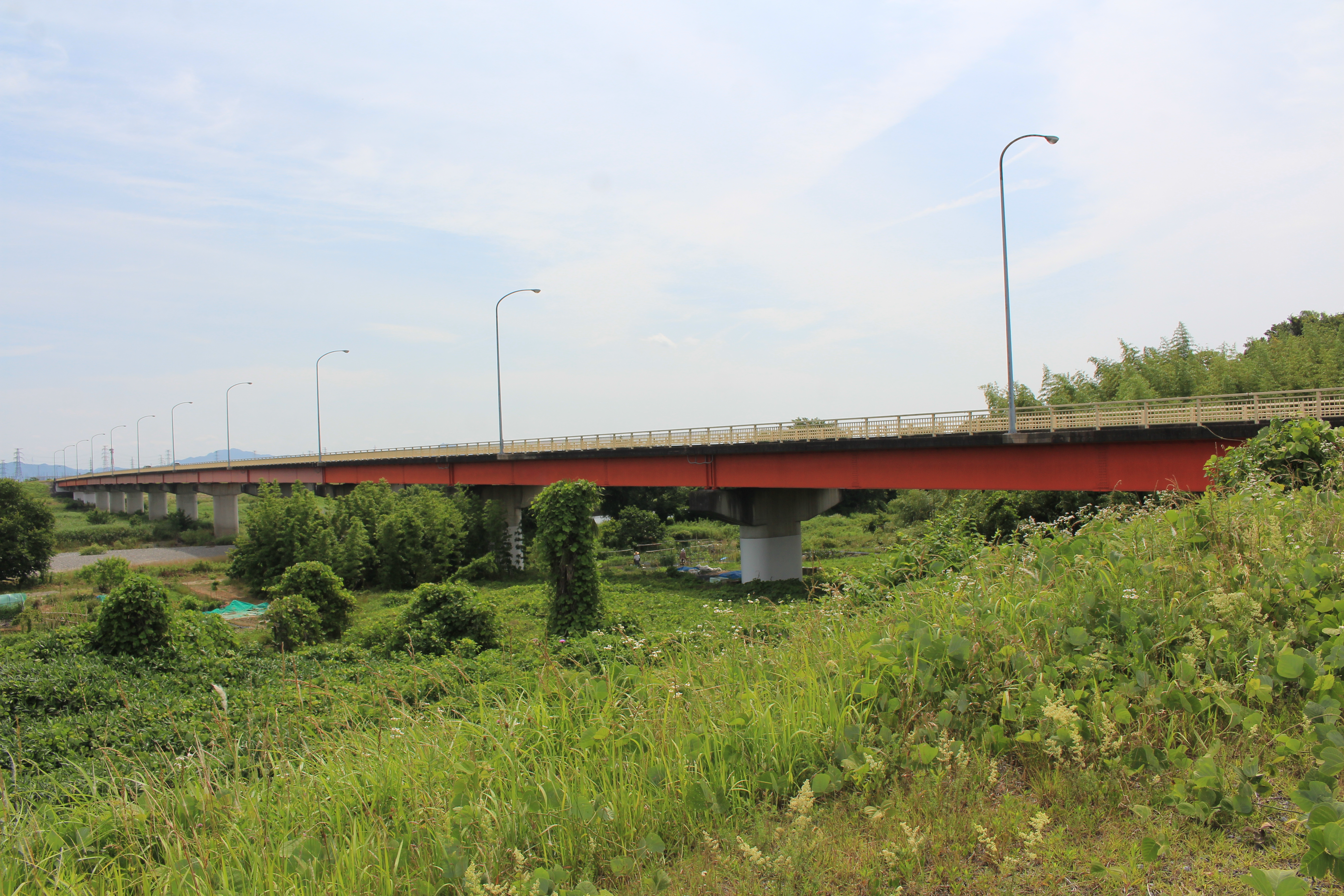 Gōdo Bridge (Gōdo-ōhashi) of Gifu Prefectural Road Route 212 over Ibi River in Gōdo, Gifu prefecture, Japan.